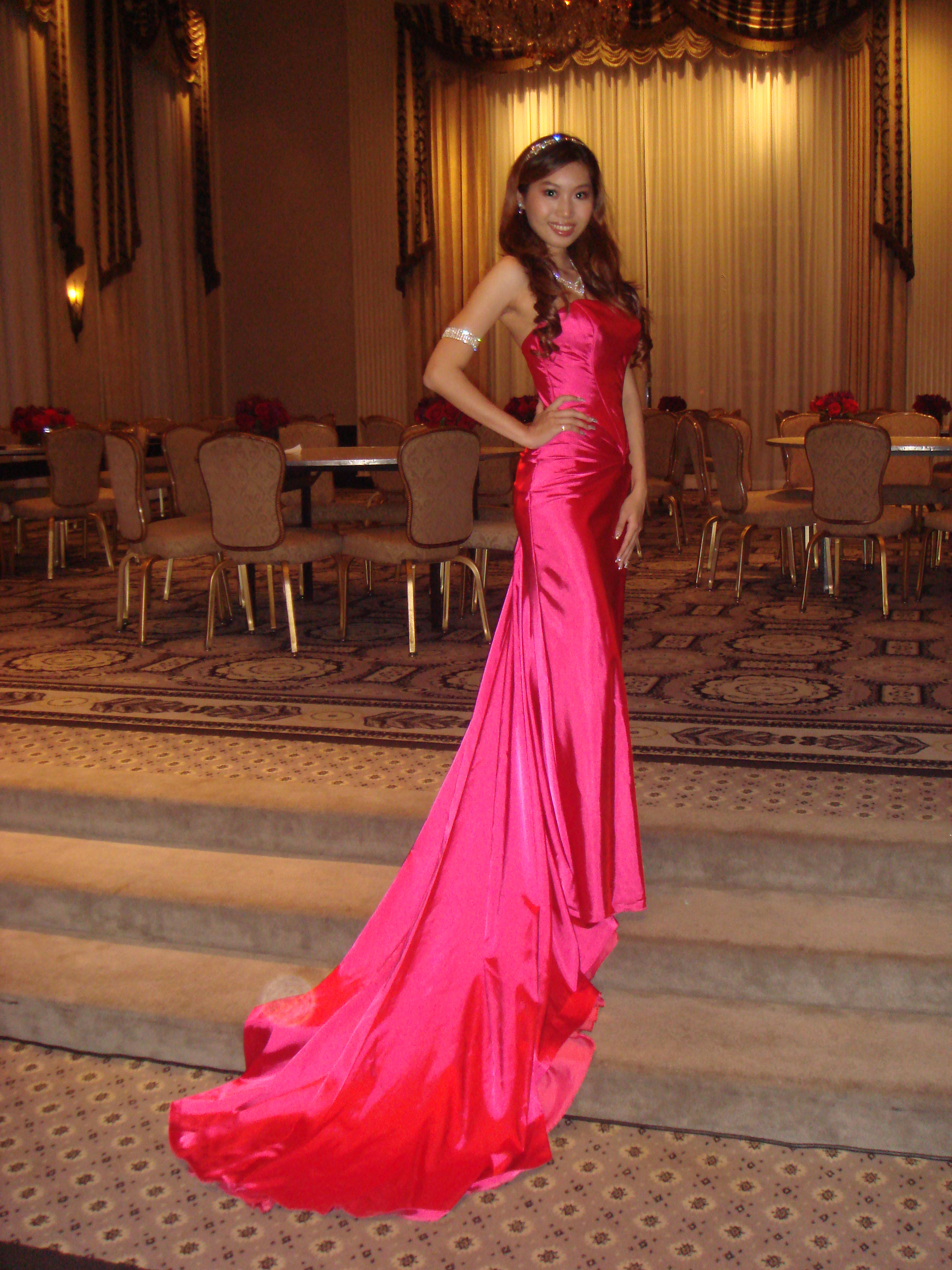 Chen-Yao Chu in the MISS ASIA INTERNATIONAL 2009